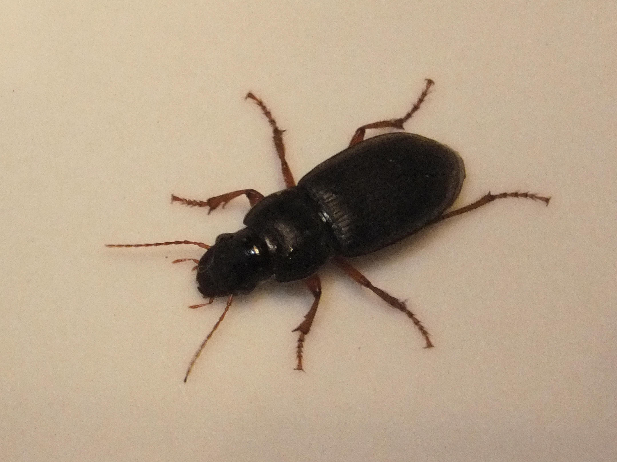 Pseudoophonus rufipes